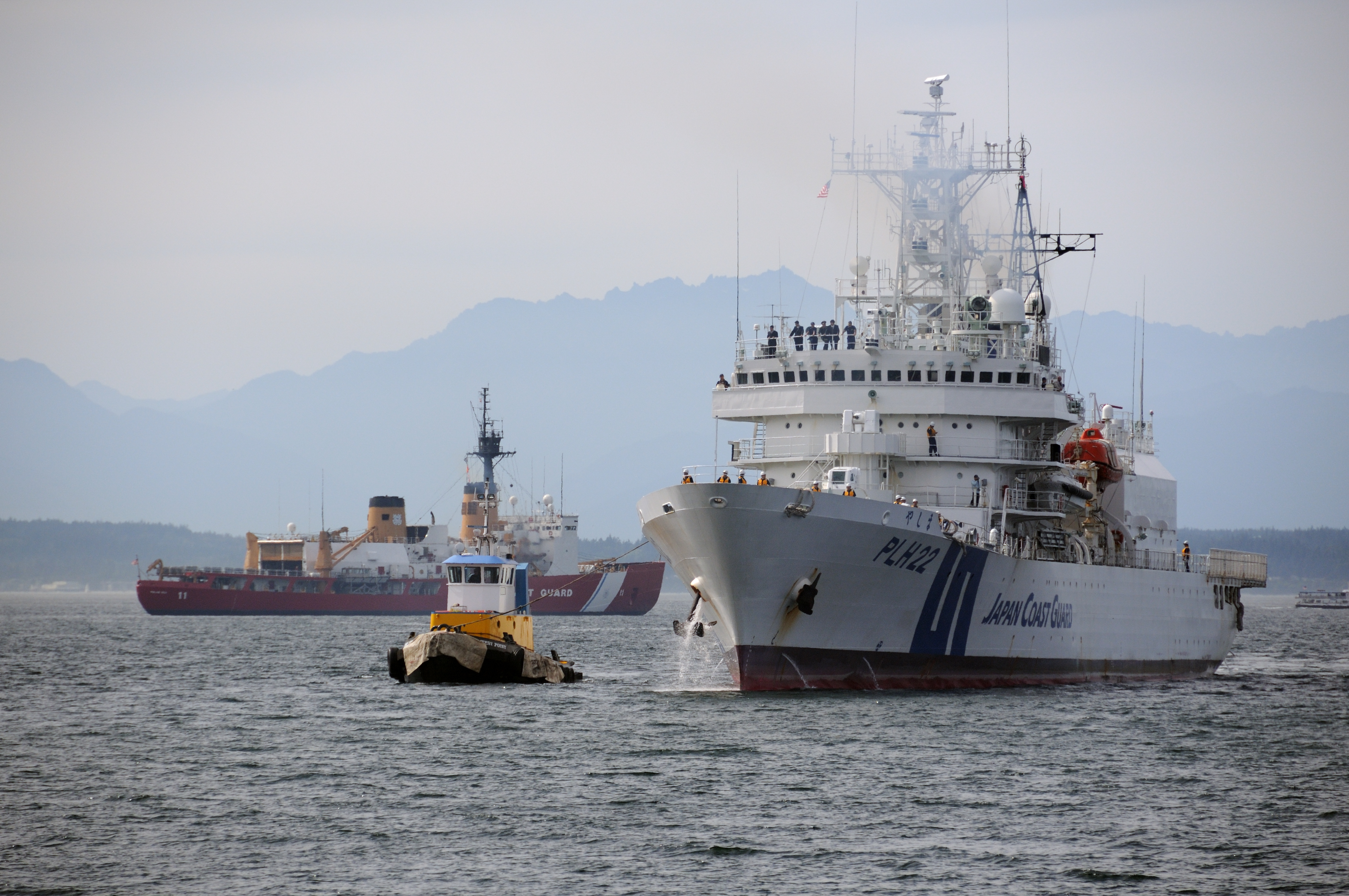 Japan Coast Guard patrol vessel Yashima (PLH 22) in the harbor in Seattle, Washington during Operation Pacific Unity 2009. SEATTLE-- The U.S. Coast Guard Cutter Polar Sea is anchored as the Japan Coast Guard Cutter Yashima pulls into the U.S. Coast Guard's Pier 36 Aug. 29, 2009. The Yashima participated in Pacific Unity 2009 over the past couple of days in Port Angeles, Wash. The exercises commenced Aug. 23, and are scheduled to wrap up with closing ceremonies in Seattle Aug. 28.